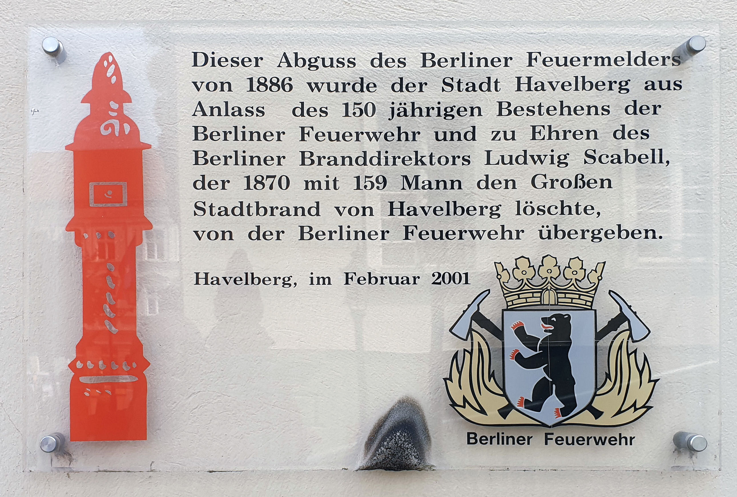 Memorial plaque, Berliner Feuerwehr, Markt 1, Havelberg, Germany